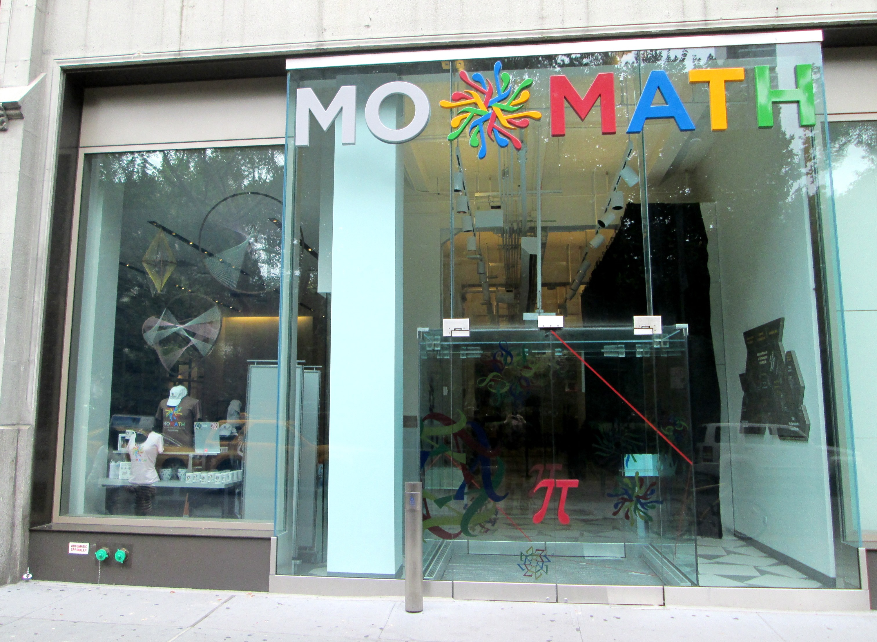 The National Museum of Mathematics (MoMath), at 11 East 26th Street between Fifth and Madison Avenues, across from Madison Square Park in the NoMad neighborhood of Manhattan, New York City, was chartered in 2009 and opened its doors in 2012. It is the only museum in North America dedicated solely to mathematics. (Source: [1])